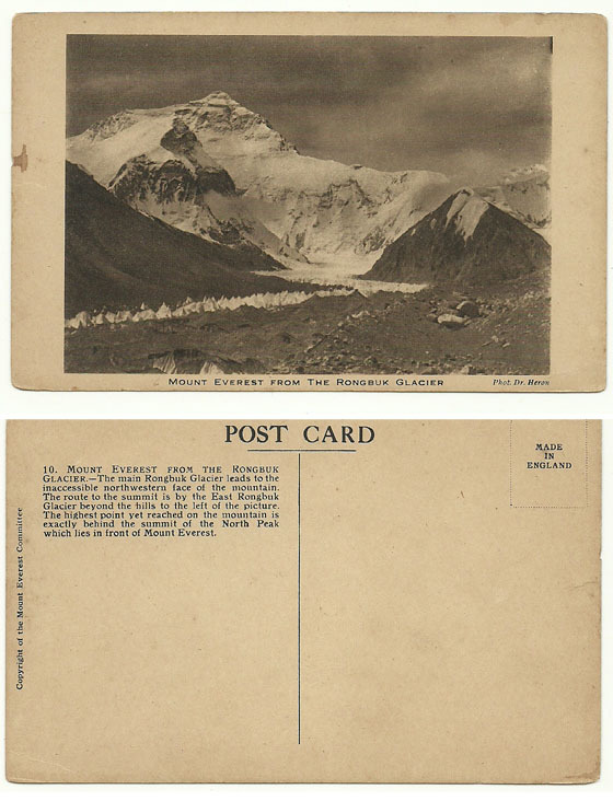 Mount Everest from the Rongbuk Glacier. The main Rongbuk Clacier leads to the inaccessible northwestern face of the mountain. The route to the summit is by the East Rongbuk Glacier beyond the hills to the left of the picture. The highest point yet reached on the mountain is exactly behind the summit of the North Peak which lies in front of Mount Everest.